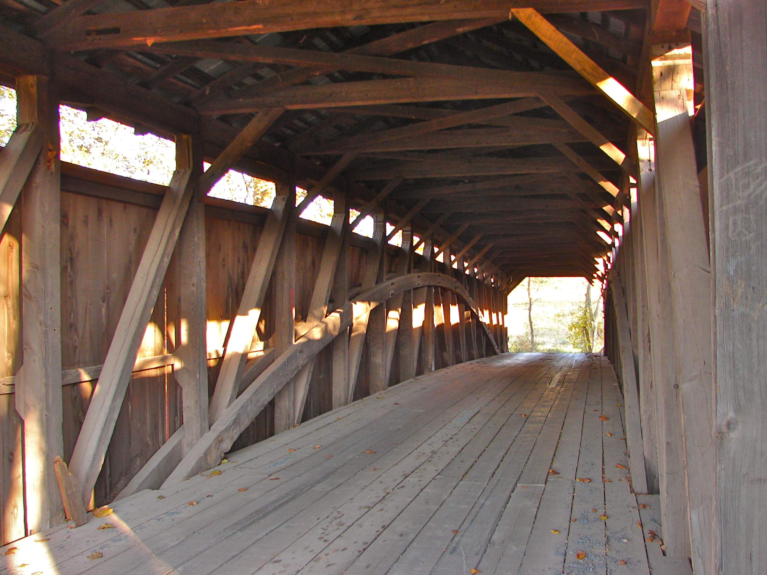 Interior of Fleisher Covered Bridge on the NRHP since August 25, 1980. Northwest of Newport on Township 477, Oliver Township, Perry County, Pennsylvania. Burr arch, built 1887, 113 feet in length. Covered bridge number 38-50-17